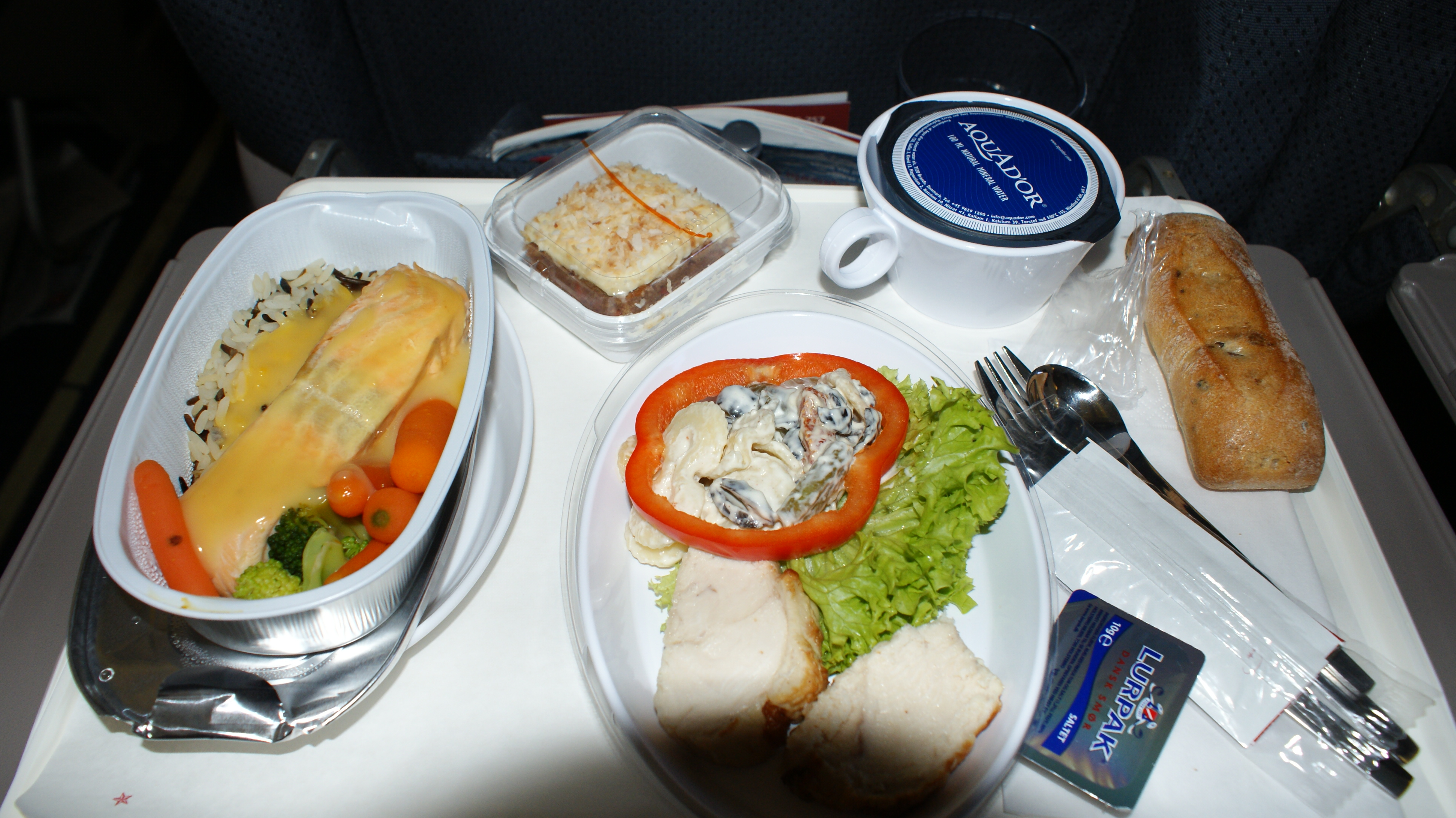 Catering on Air Greenland transatlantic flights.